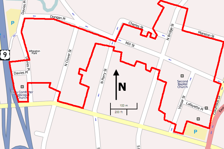 Map of Mill Street-North Clover Street Historic District, Poughkeepsie, NY, USA This map may be incomplete, and may contain errors. Don't rely solely on it for navigation.